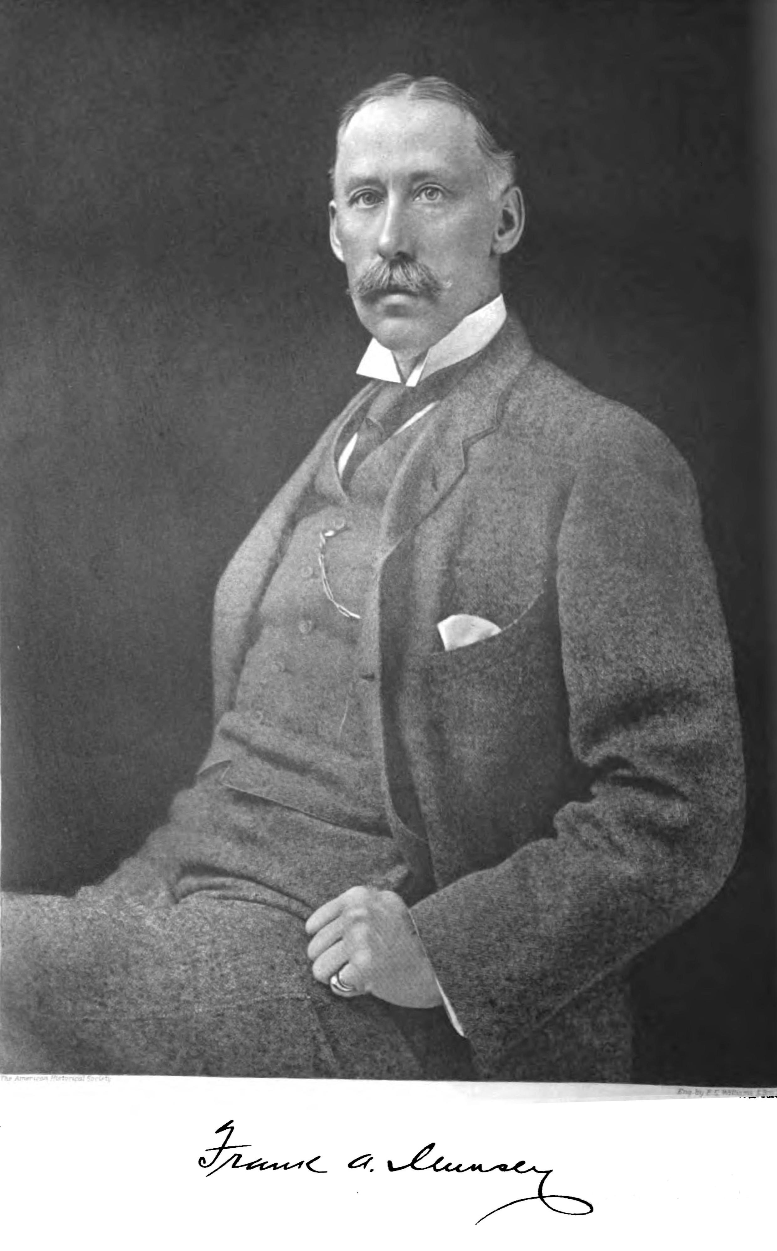 Frank A Munsey 001